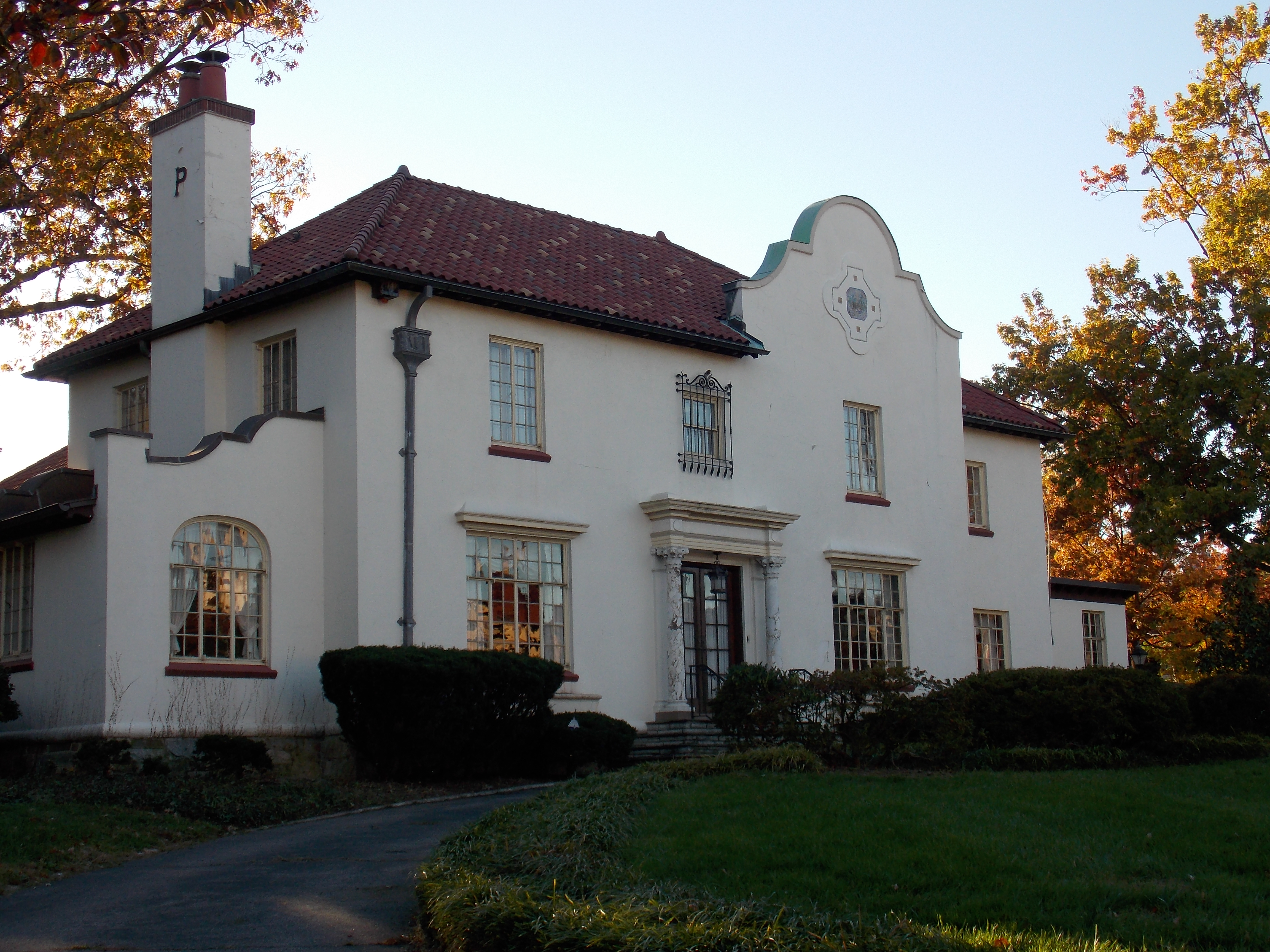 The Heurich-Parks House in the Observatory Circle of Northwest Washington, D.C. is listed on the National Register of Historic Places.